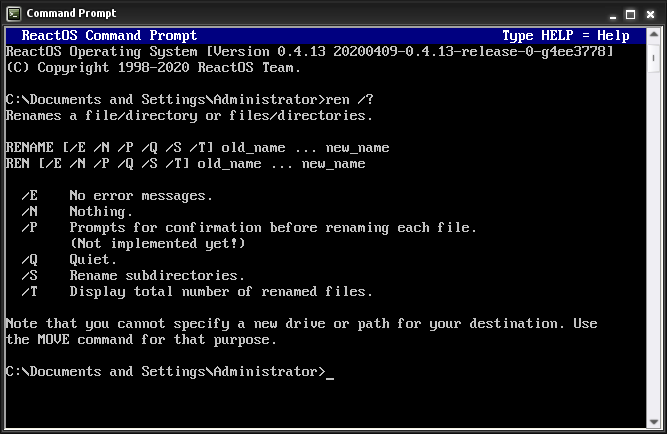 ren command on ReactOS-0.4.13